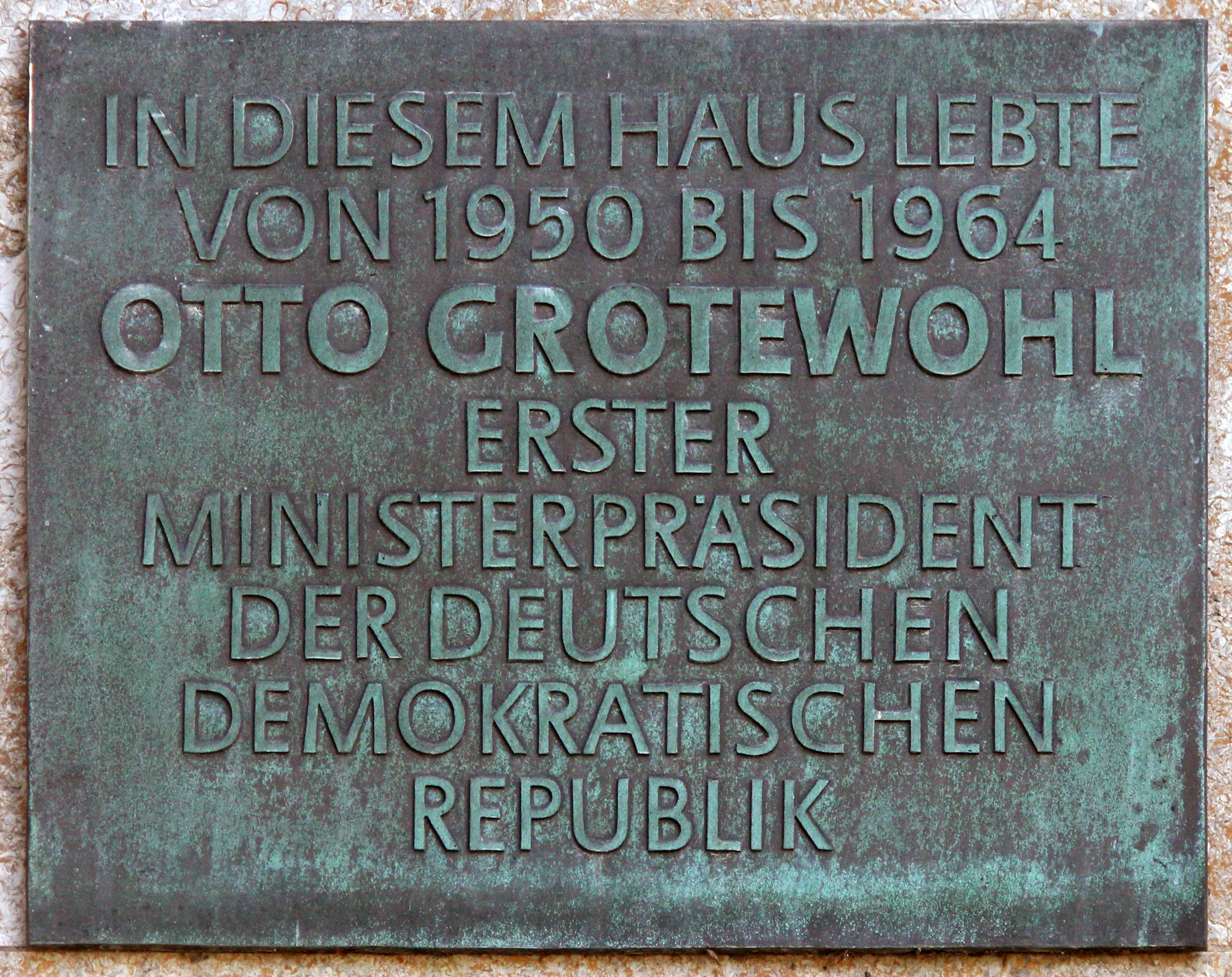 Memorial plaque, Otto Grotewohl, Majakowskiring 46, Berlin-Niederschönhausen, Germany